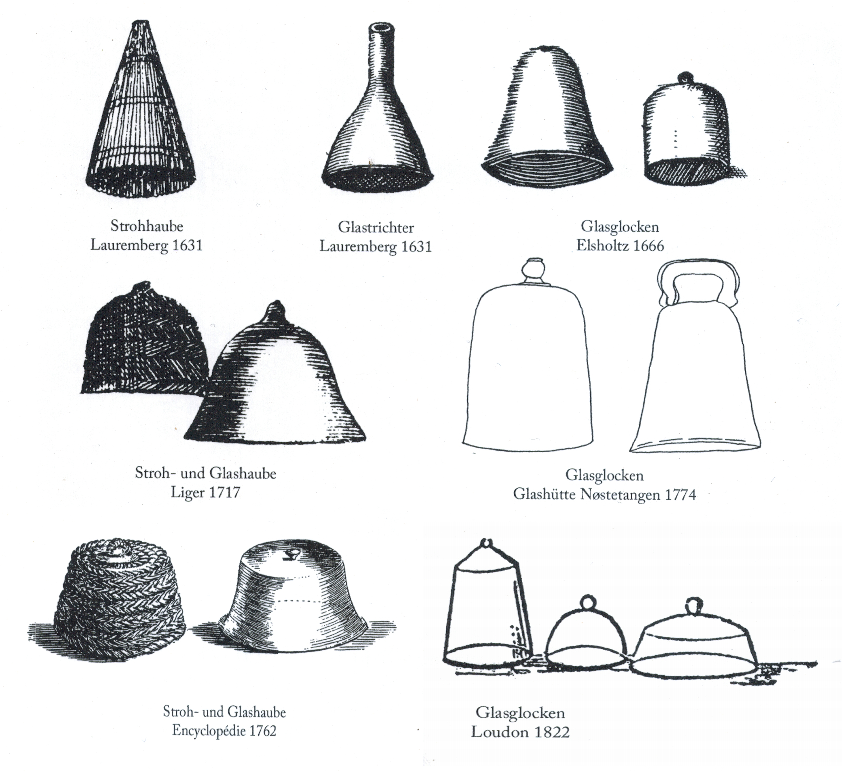 Various straw hoods and glass bells (each with named source)